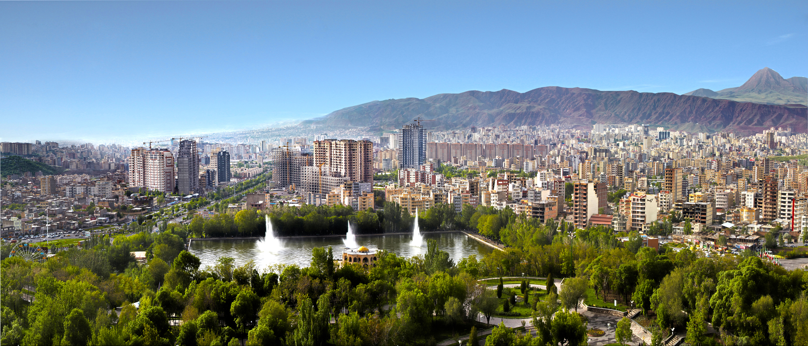 Panoramic view